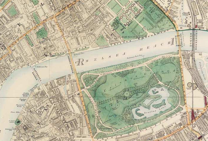 Battersea & Chelsea, 1746